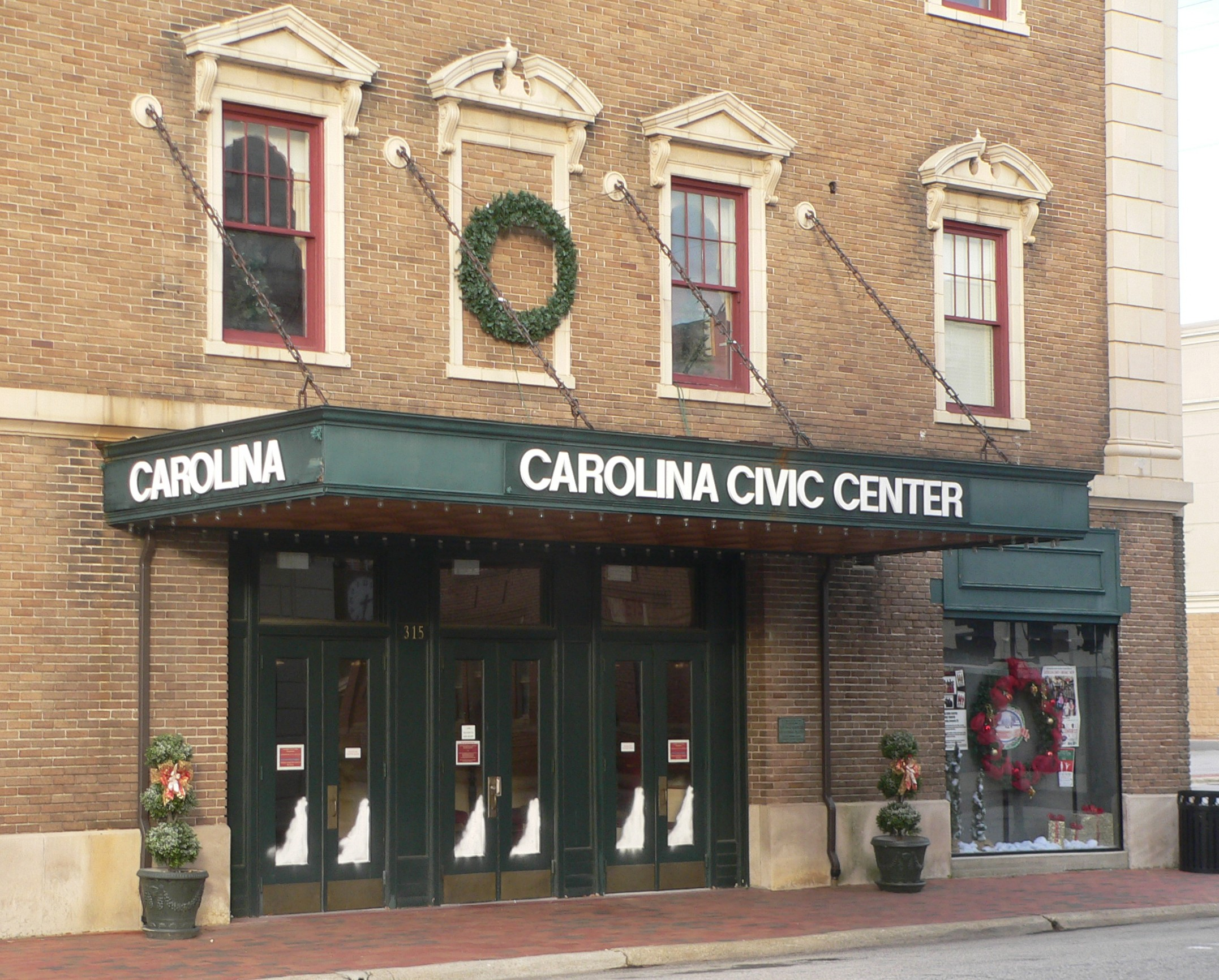 Carolina Civic Center, located at 315 N. Chestnut Street (southwest corner of 4th and Chestnut Streets) in Lumberton, North Carolina: main (east) entrance, facing Chestnut.